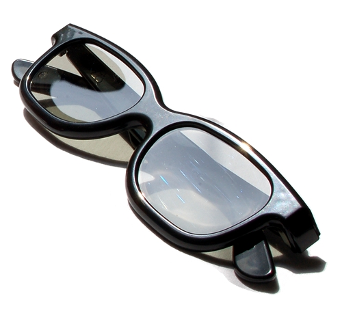 RealD glasses used in 3D movie theaters.